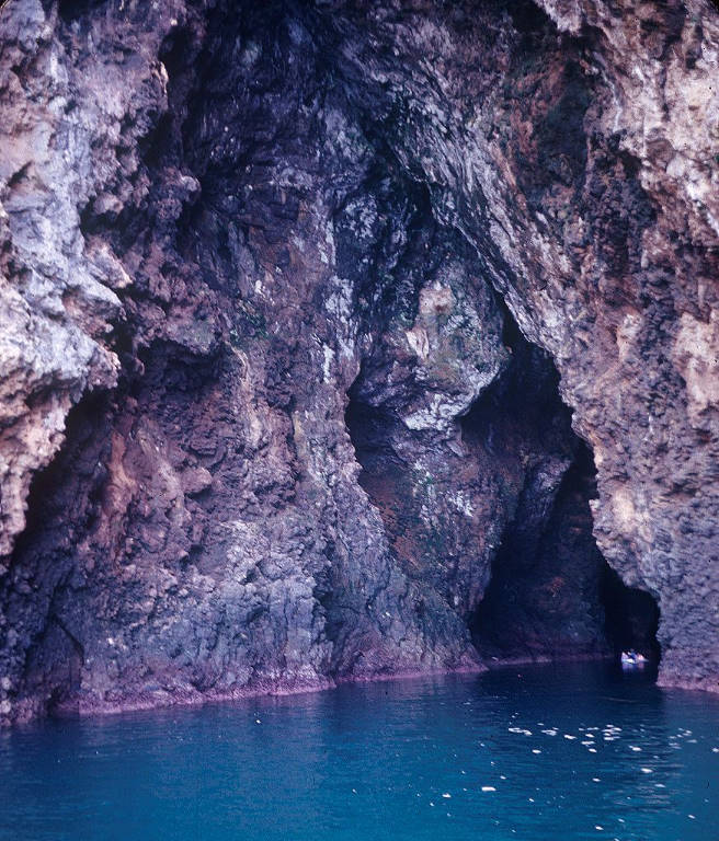 Painted Cave, a sea cave on Santa Cruz Island, California. This shows formation along a fault, visible in the ceiling. The cave is formed in basalt, which was faulted as the island uplifted. Photo by Dave Bunnell